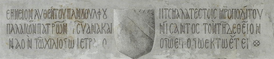 The Pandoulfo Malatesta, Latino archbishop of Patras, Patras Baron of Barony